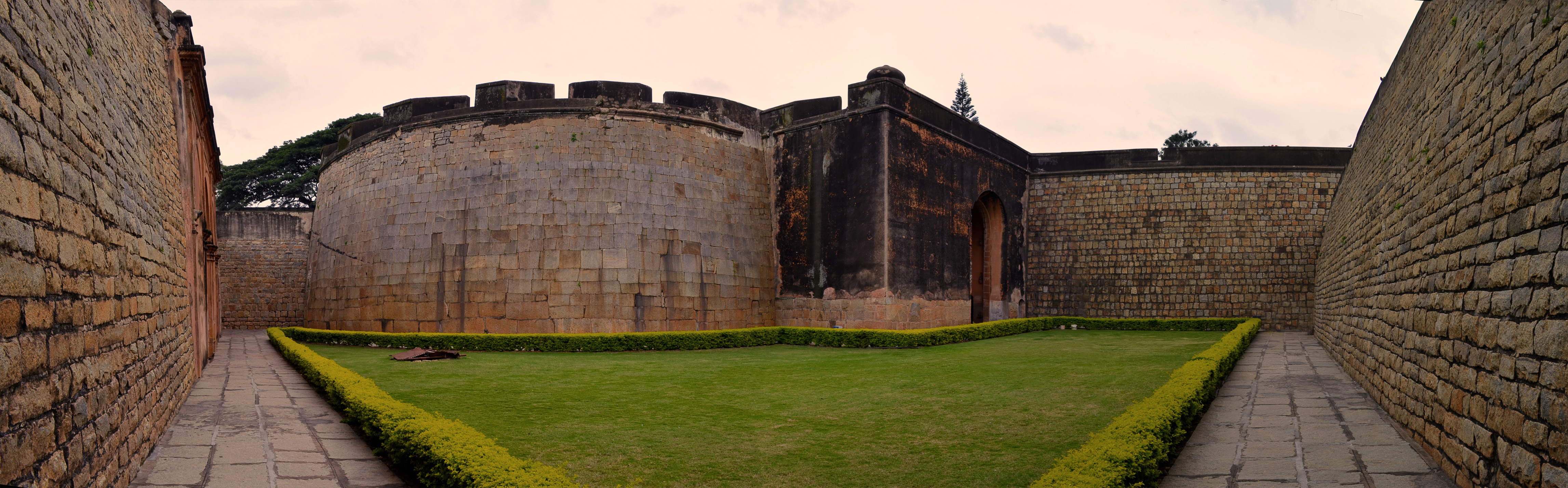 Old Dungeon Fort & Gates